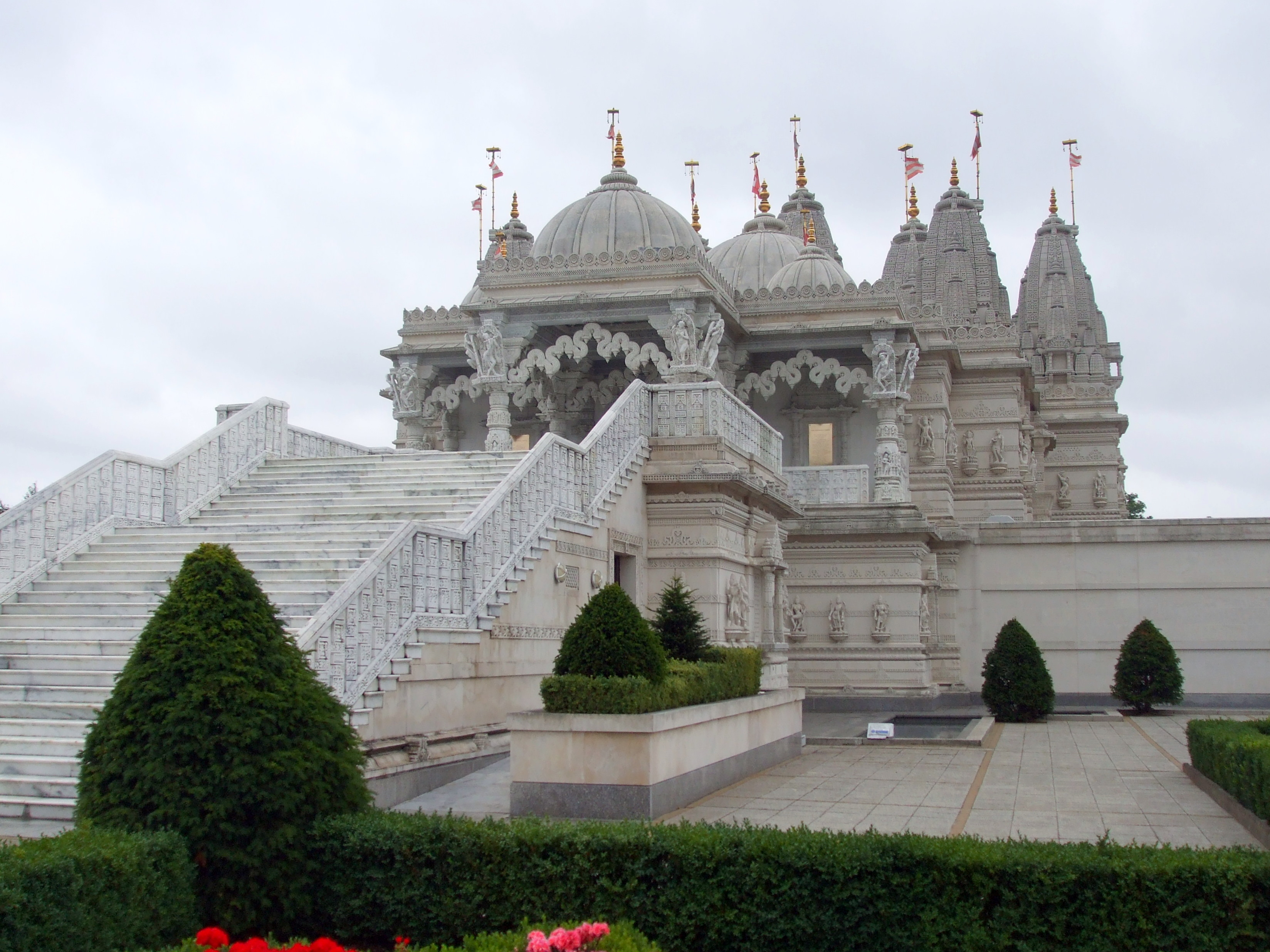 Swaminarayan Temple Complex - Neasden, London